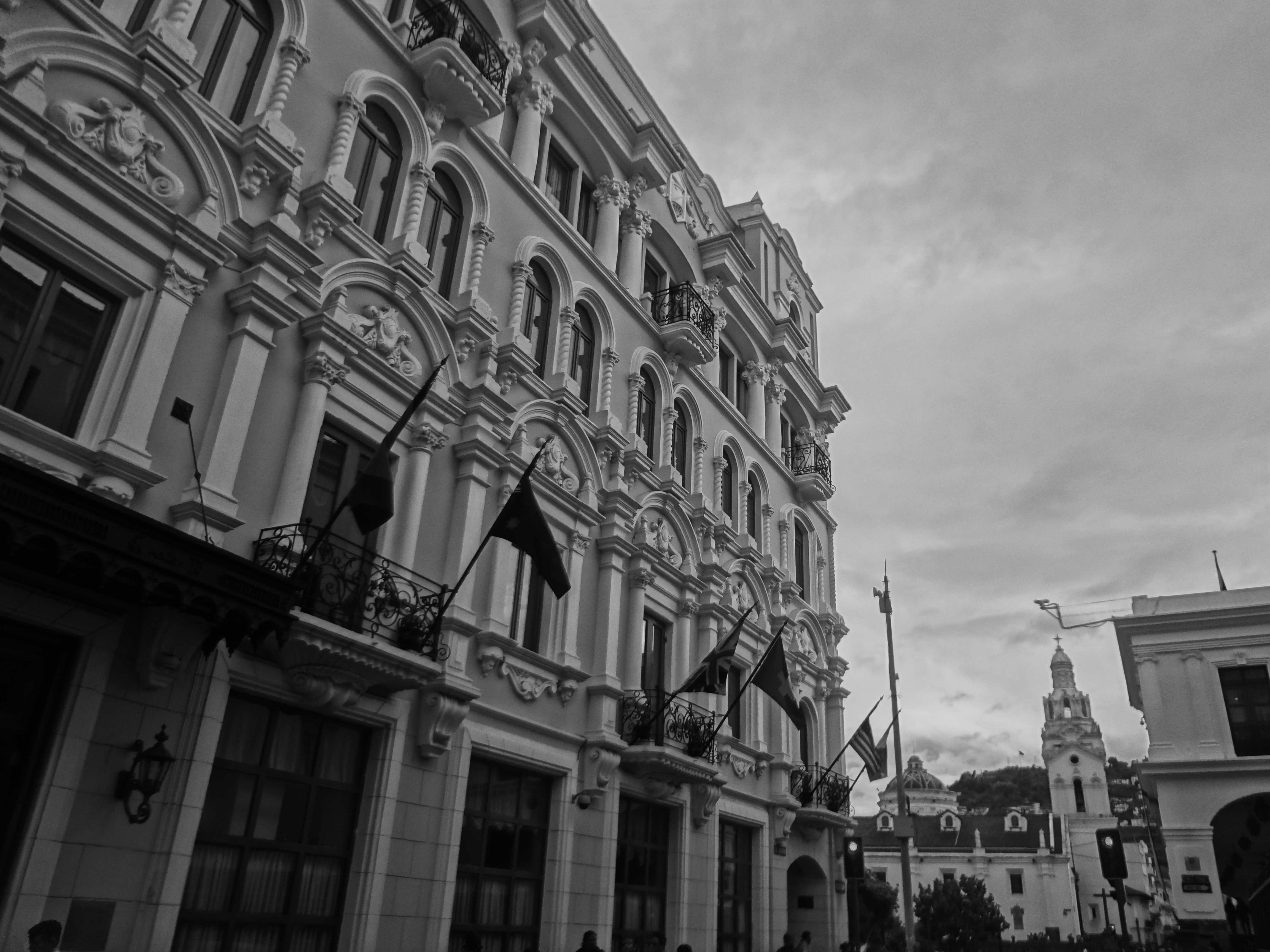 Historic Center of Quito - World Heritage Site by UNESCO A photograph of the Hotel Plaza Grande in the Historic Center of Quito El Centro Histórico de Quito Historic Center of Quito Photography by David Adam Kess